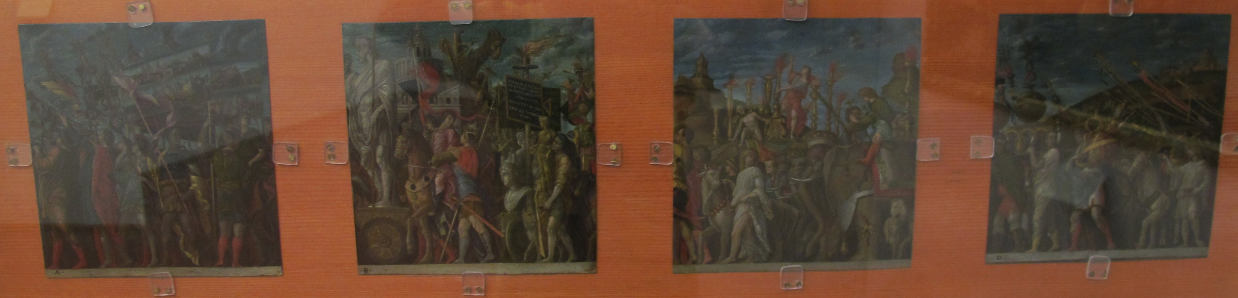 Painting in the National Pinacotheque, Siena